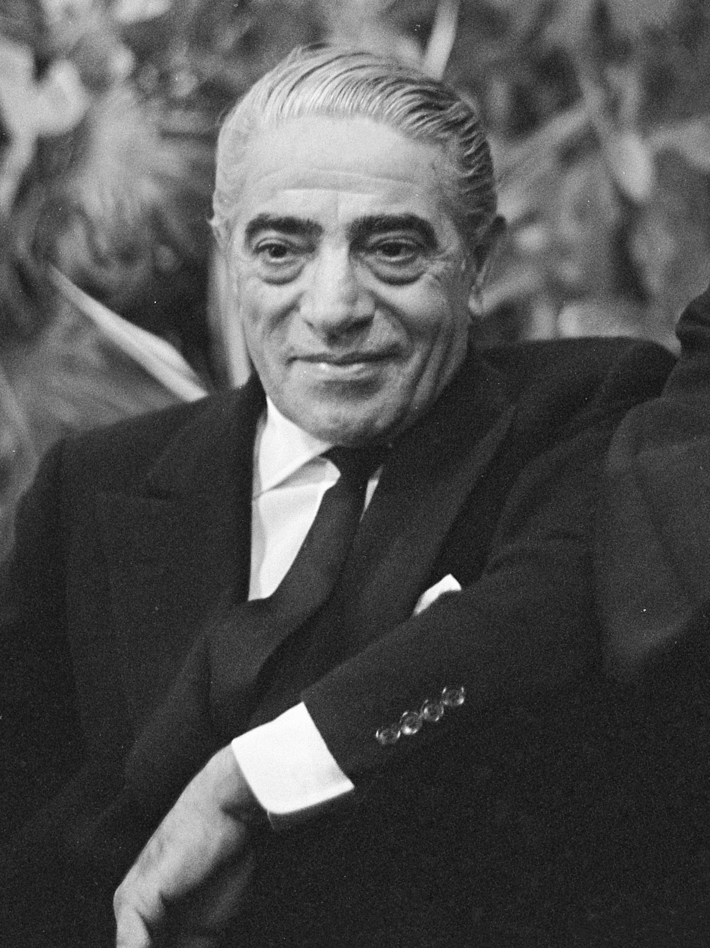 Greek shipowner Aristotle Onassis